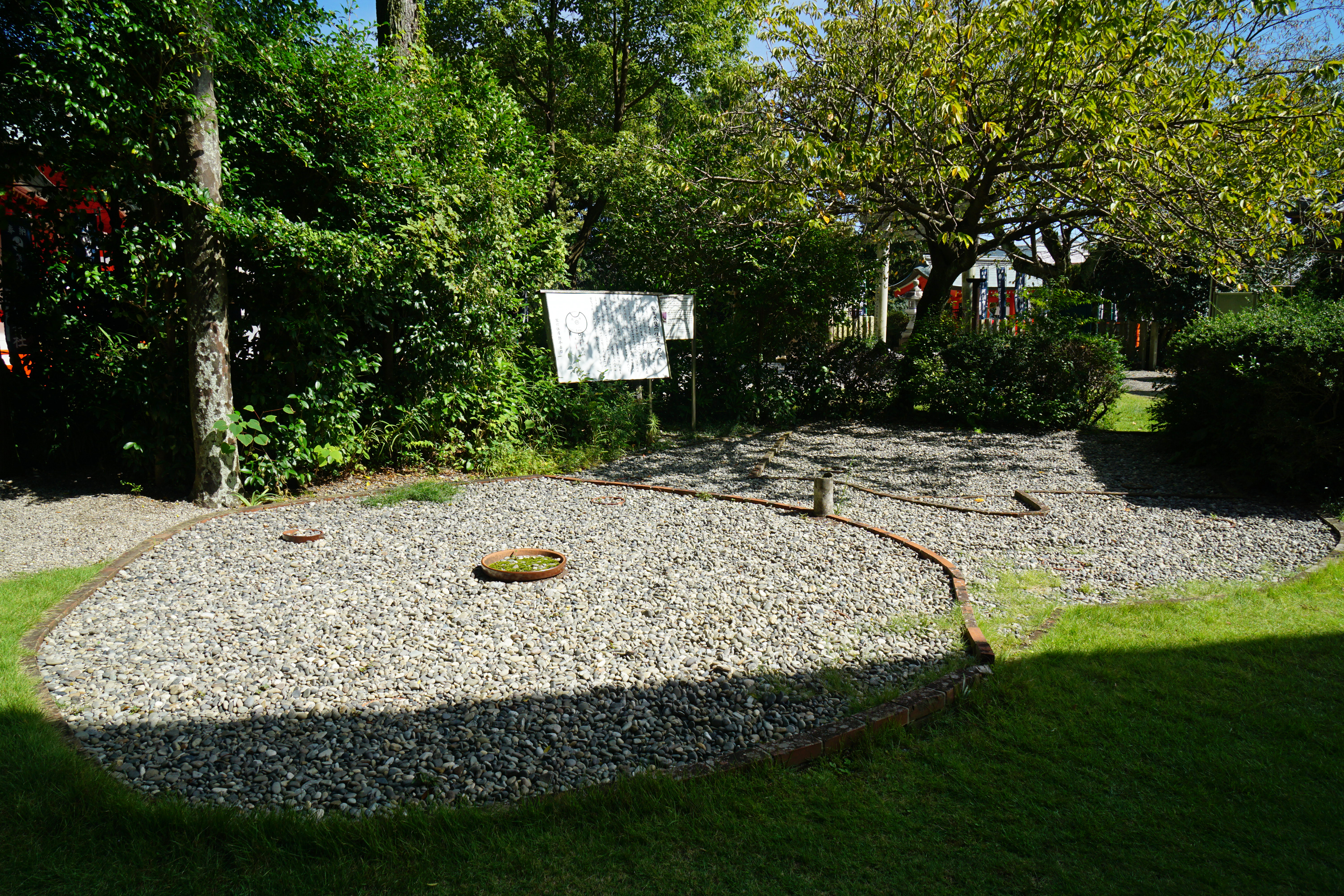 Asuka-jinja in Shingū, Wakayama prefecture, Japan